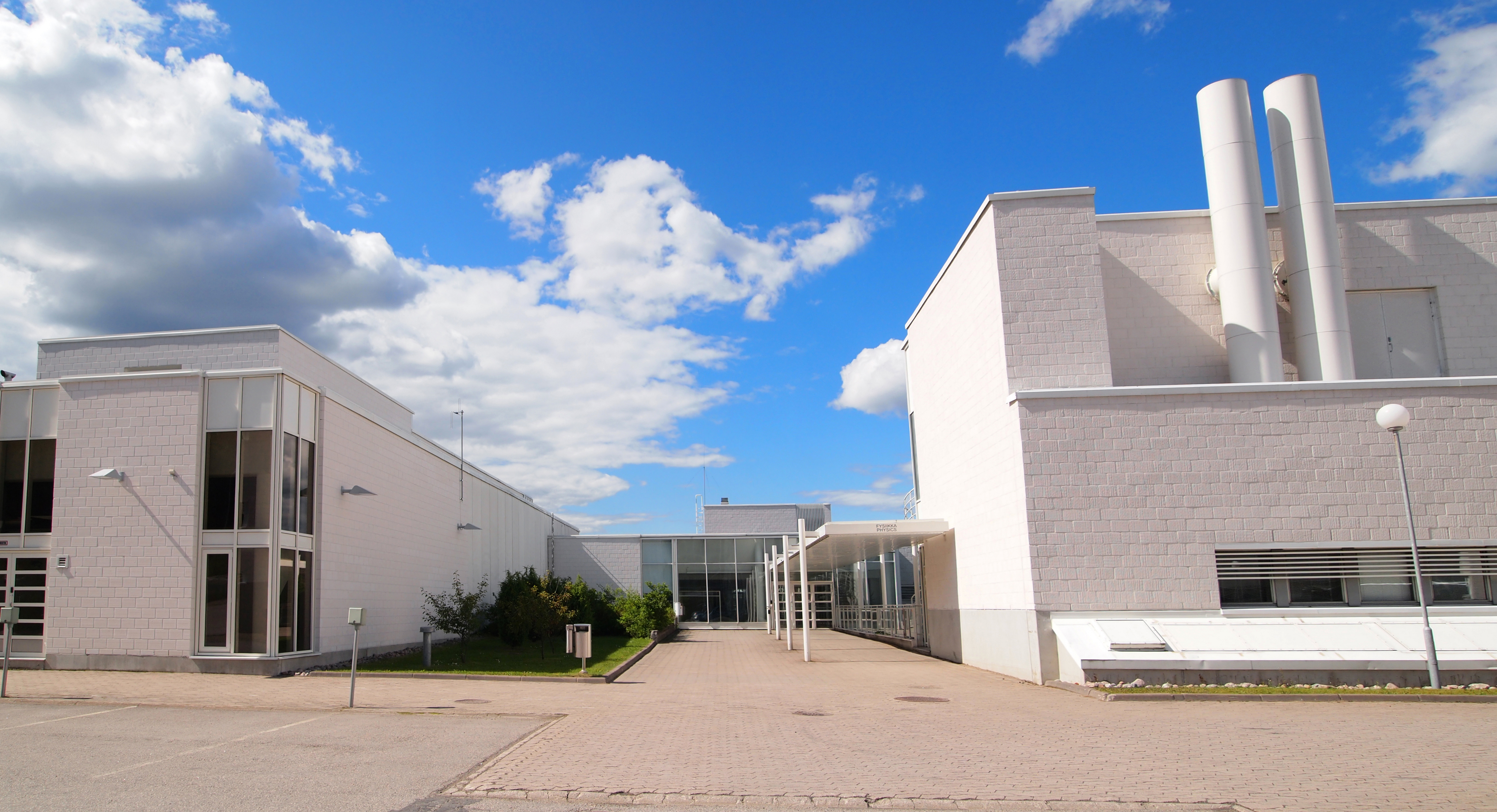 Department of Physics on the Ylistönrinne Campus area of University of Jyväskylä.